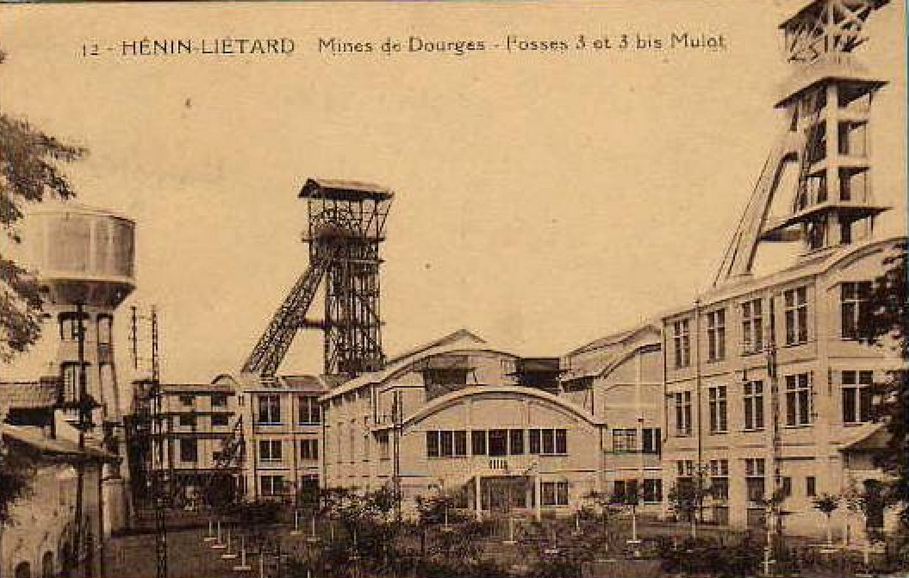 Compagnie des mines de Dourges, Pas-de-Calais, France.